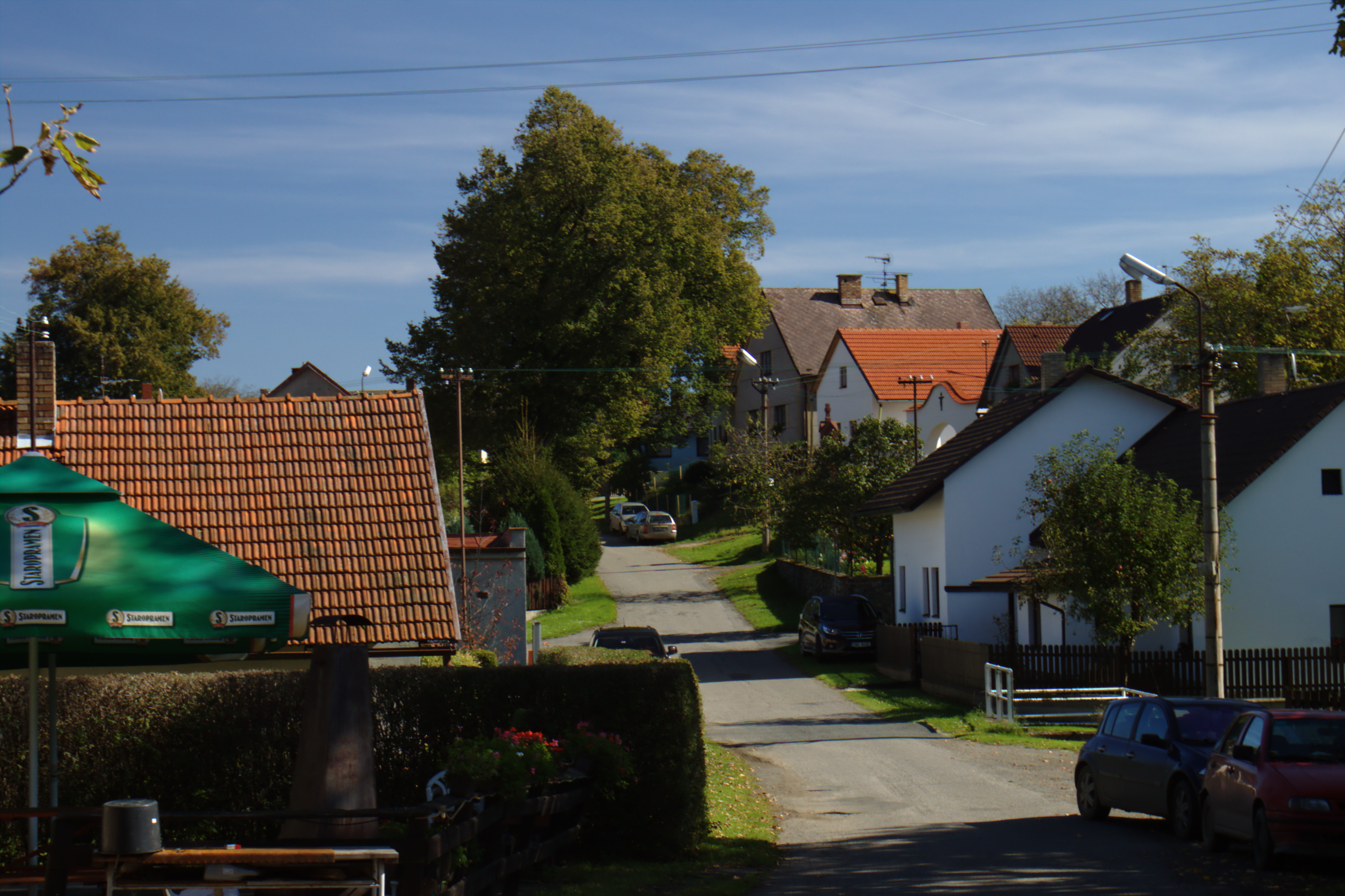 Various buildings in central part of the village of Podveky, Central Bohemian Region, CZ